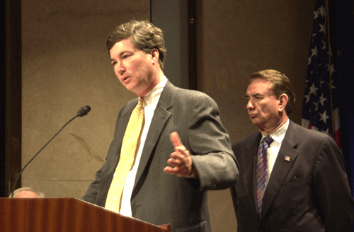 November 12, 2002 HHS Secretary Tommy G. Thompson and Centers for Medicare and Medicaid Services Administrator Tom Scully speak at the announcement of the nationwide expansion of the Nursing Home Quality Initiative.